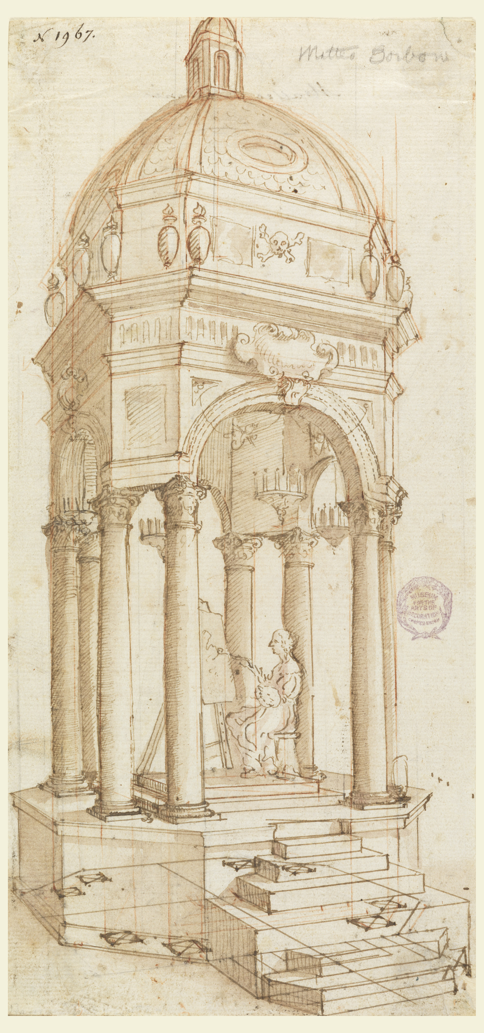 Drawing, Catafalque of the Bolgonese Artist Elisabetta Sirani, 1665; Made by Matteo Borboni (Italian, ca. 1610 – 1667); Italy; pen and brown ink, brush and brown wash over graphite on off-white laid paper; 29.5 x 13.8 cm (11 5/8 x 5 7/16 in.)